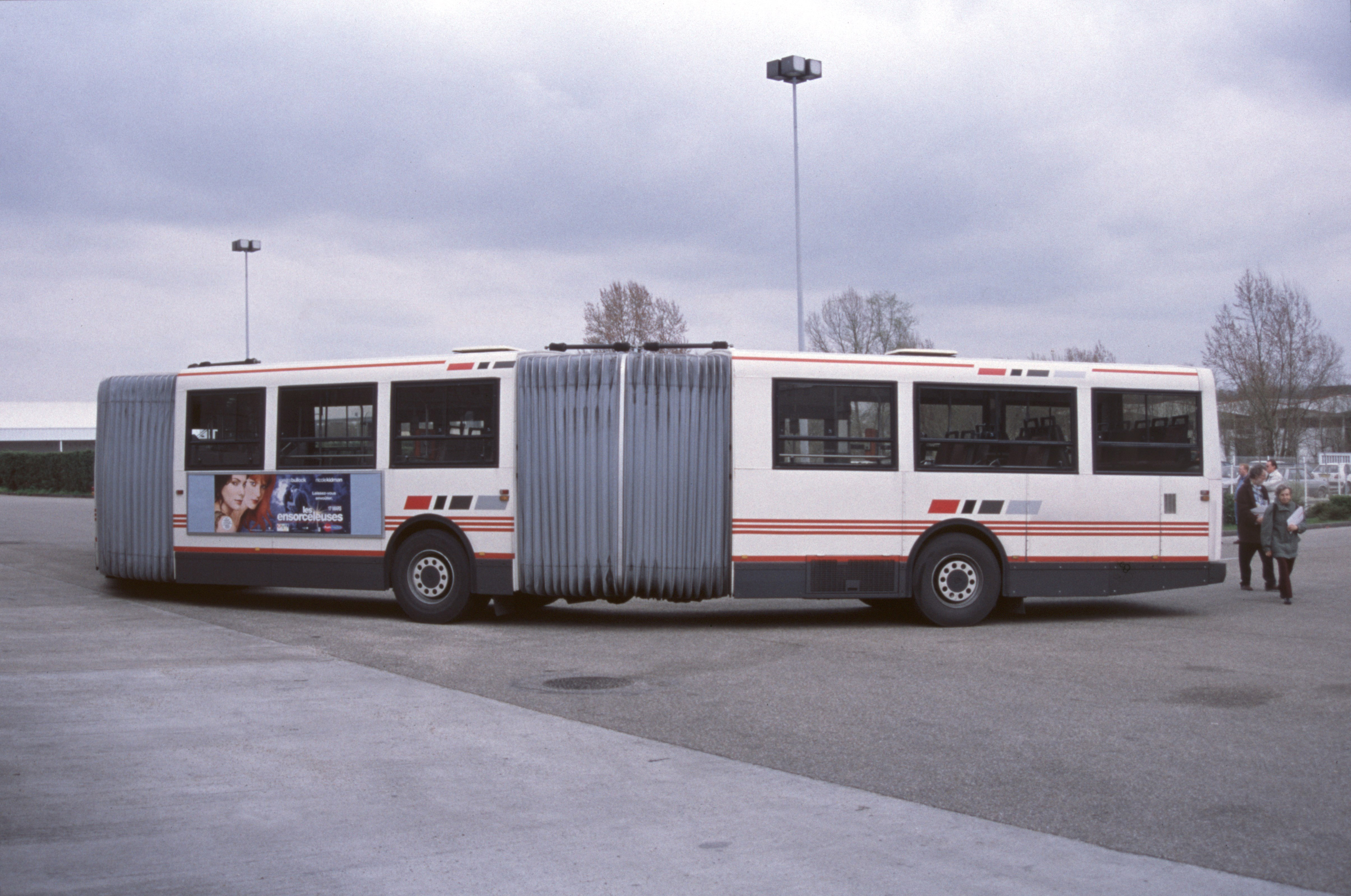 A Renault Mégabus (n°8986 of the CGFTE) parked at the Dépôt du lac (Bordeaux, France) on March 13, 1999, on the occasion of a general assembly of the association Car-Histo-Bus.